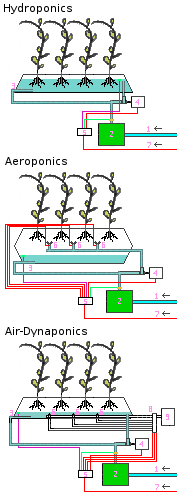 Schematic showing all 3 types of X-ponics systems: hydroponics, aeroponics, aer-dynaponics. References: , "A new frontier for hydroponics". Growing Edge 16. Sept/Oct, p72-75 by Chow, K.K. (2004). Made based on direct advice from Mr. Kheong Keat Gregory Chow. System components: 1= Water inlet (clear water) 2= Nutrient solution tank 3= Plant box drain 4= Engine (with pump attached) 5= Electrical board (switches supply of power on/off to sprinklers at a timed interval; switches valve on/off from nutrient solution tank; this when the sensor in the plant box indicates that the solution level is getting too low) 6= Spraying nozzles 7= Electricity inlet 8= Air compressor 9= Manifold (holds valves of air-dynaponics system which allow to put spraying nozzles on/off at a timed interval) Note: A chiller has not been placed at the aeroponics system (at drain pipe; before the pump) since this is not a vital component (may be dismissed in some situations; ie in temperate climates or when using alternative cooling systems). In the tropics, without some type of chilling equipment, the roots would however get scorched (root zone temperature gets too high), resulting in browning of roots and rotting.